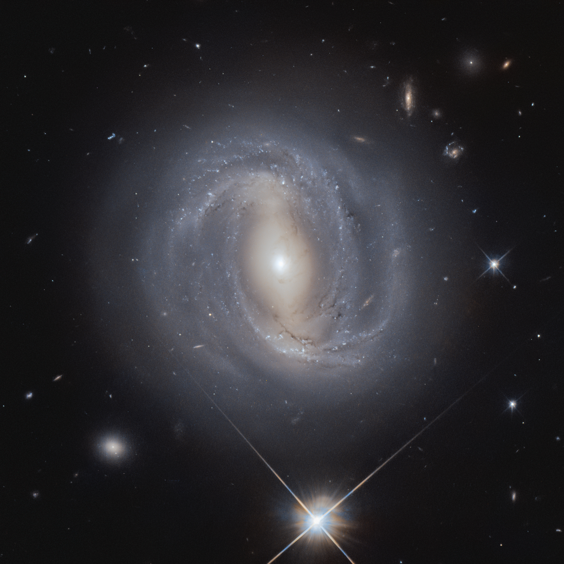 Seeing Near and Far The barred spiral galaxy known as NGC 4907 shows its best side from 270 million light-years away to anyone who can see it from the northern hemisphere.This is a new image from the NASA/ESA Hubble Space Telescope of the face-on the galaxy, displaying its beautiful spiral arms, wound loosely around its central bright bar of stars. Shining brightly below the galaxy is a star that is actually within our own Milky Way galaxy. This star appears much brighter than the many millions of stars in NGC 4907 as it is 100 000 times closer, residing only 2500 light-years away. NGC 4907 is also part of the Coma Cluster, a group of over 1000 galaxies, some of which can be seen around NGC 4907 in this image. This massive cluster of galaxies lies within the constellation of Coma Berenices, which is named for the locks of Queen Berenice II of Egypt: the only constellation named after a historical person. Credit: ESA/Hubble & NASA, M. Gregg CoordinatesPosition Position (RA): 13 0 48.42 Position (Dec): 28° 8' 49.40" Field of view: 2.63 x 2.70 arcminutes Orientation: North is 19.0° right of vertical Colours & filters Band Wavelength Telescope Optical Long Pass 350 nm Hubble Space Telescope WFC3 Optical Long Pass 600 nm Hubble Space Telescope WFC3 .